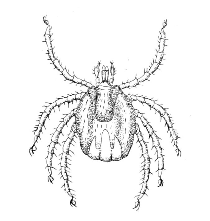 Hyalomma puta Cambridge = Ixodes uriae White, 1852: dorsal view